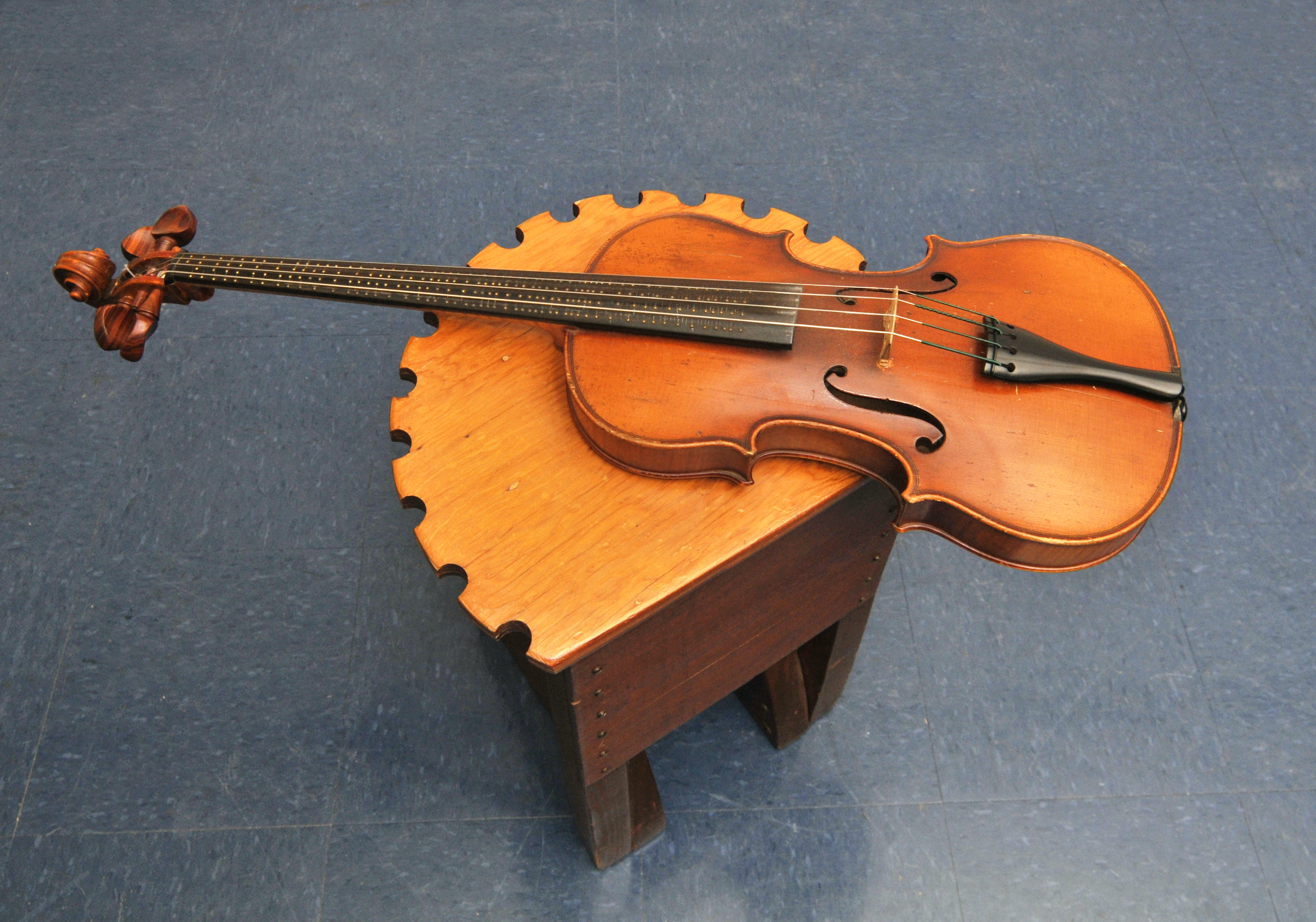 Harry Partch's Adapted Viola, a viola with a cello neck and fingerboard markings for just intonation. Photographed at the Harry Partch Institute at Montclair State University.